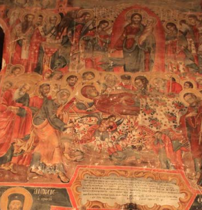 Assumption_of_Mary_Church_in_Samarina_Fresco